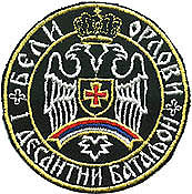 Serbian paramilitary unit Beli Orlovi, "The White Eagles" "1st para Battalion" used 1992-1995.